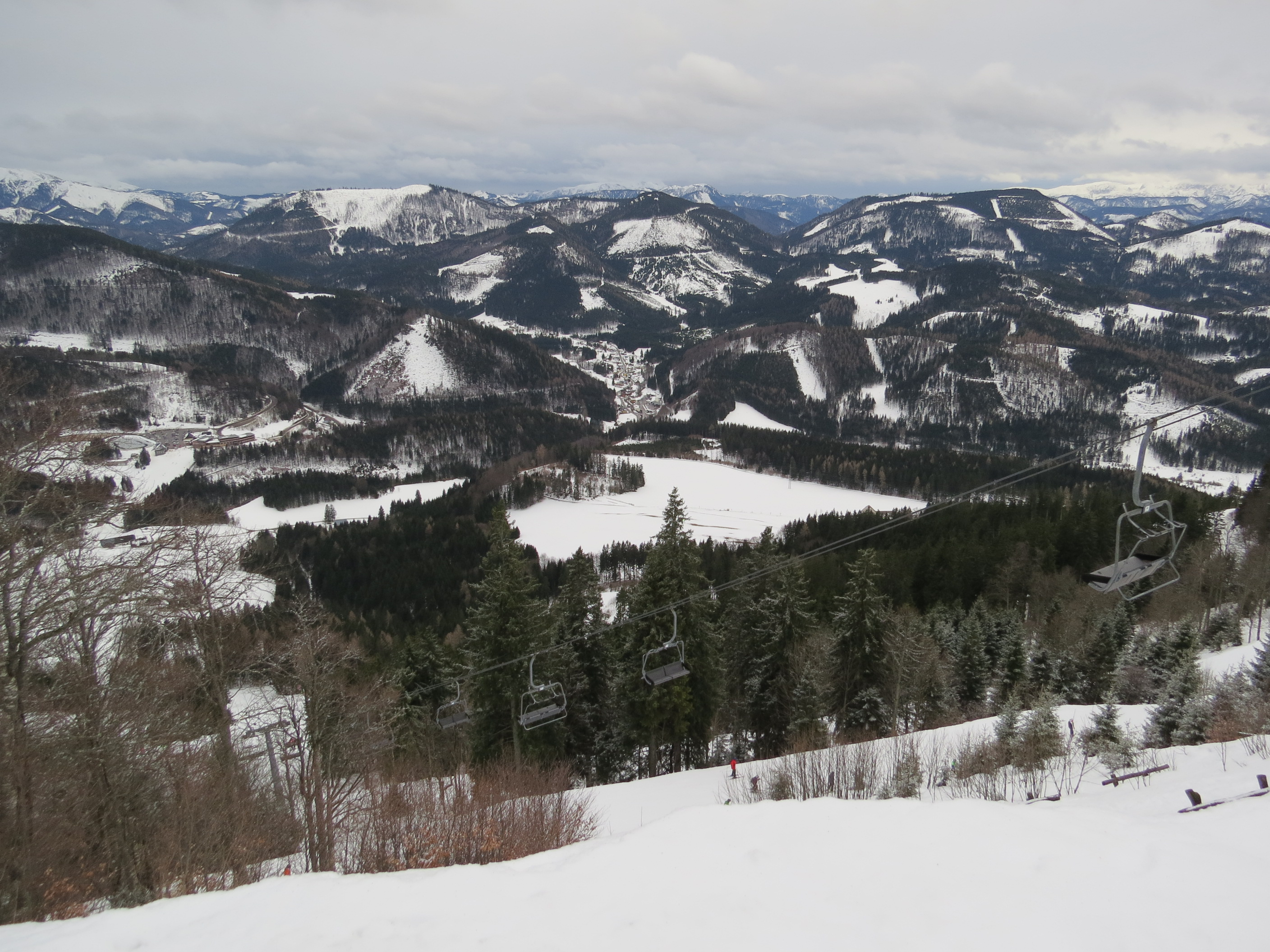 View from Hennestecklift in Annaberg, Lower Austria